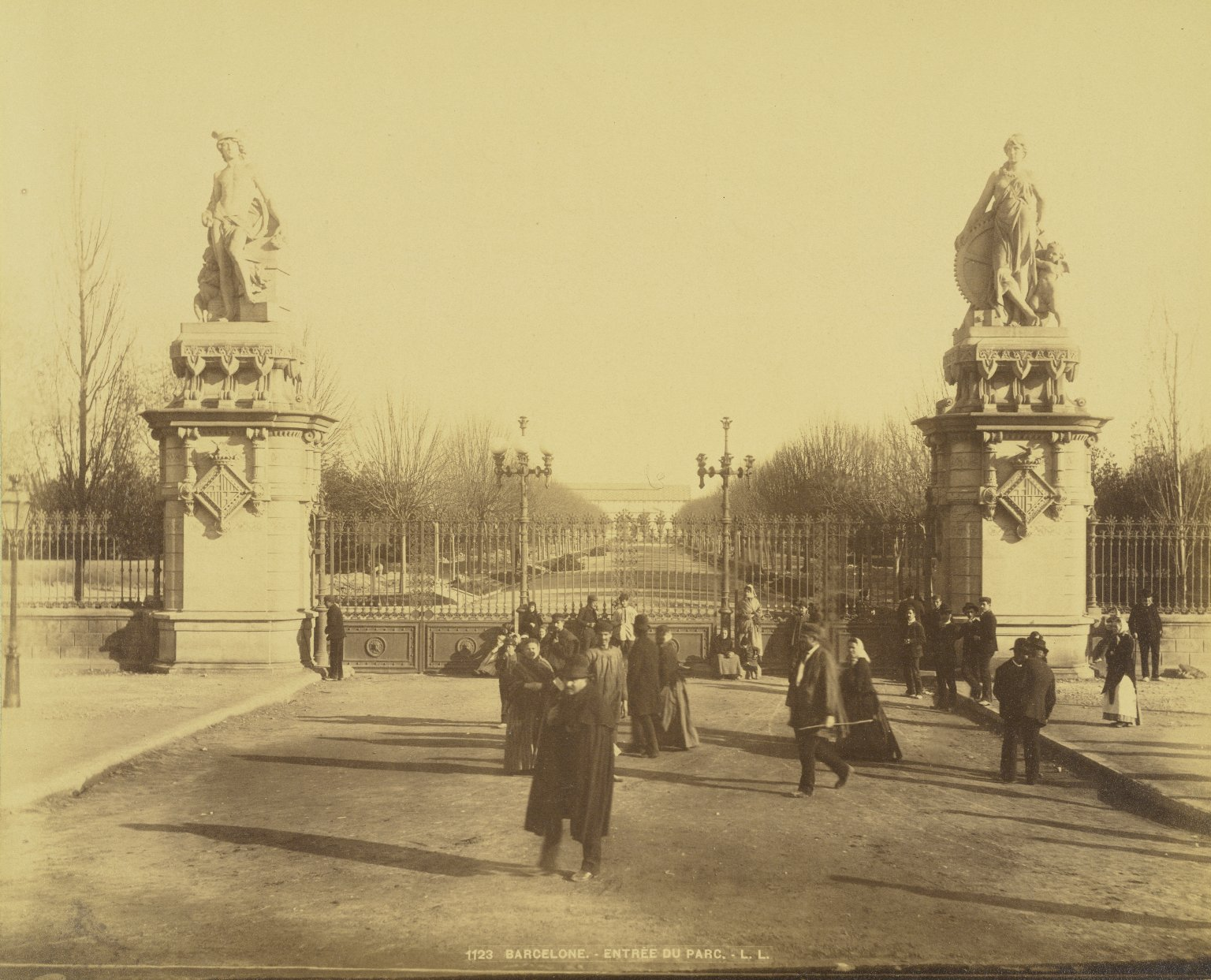 Collection: A. D. White Architectural Photographs, Cornell University Library Accession Number: 15/5/3090.01616 Title: Barcelona. Entrance to Ciudadela Park Photographer: M. and Lévy, J. Léon (French photographic studio, active 1860-1880) Arch date: 1888 Photograph date: ca. 1888-ca. 1901 Location: Europe: Spain; Barcelona Materials: albumen print Image: 8.8583 x 11.0236 in.; 22.5 x 28 cm Provenance: Gift of Charles Mason Remey Persistent URI: There are no known copyright restrictions on this image. The digital file is owned by the Cornell University Library which is making it freely available with the request that, when possible, the Library be credited as its source. We had some help with the geocoding from Web Services by Yahoo!